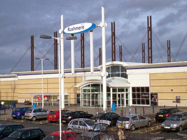 Rushmere Centre, Craigavon